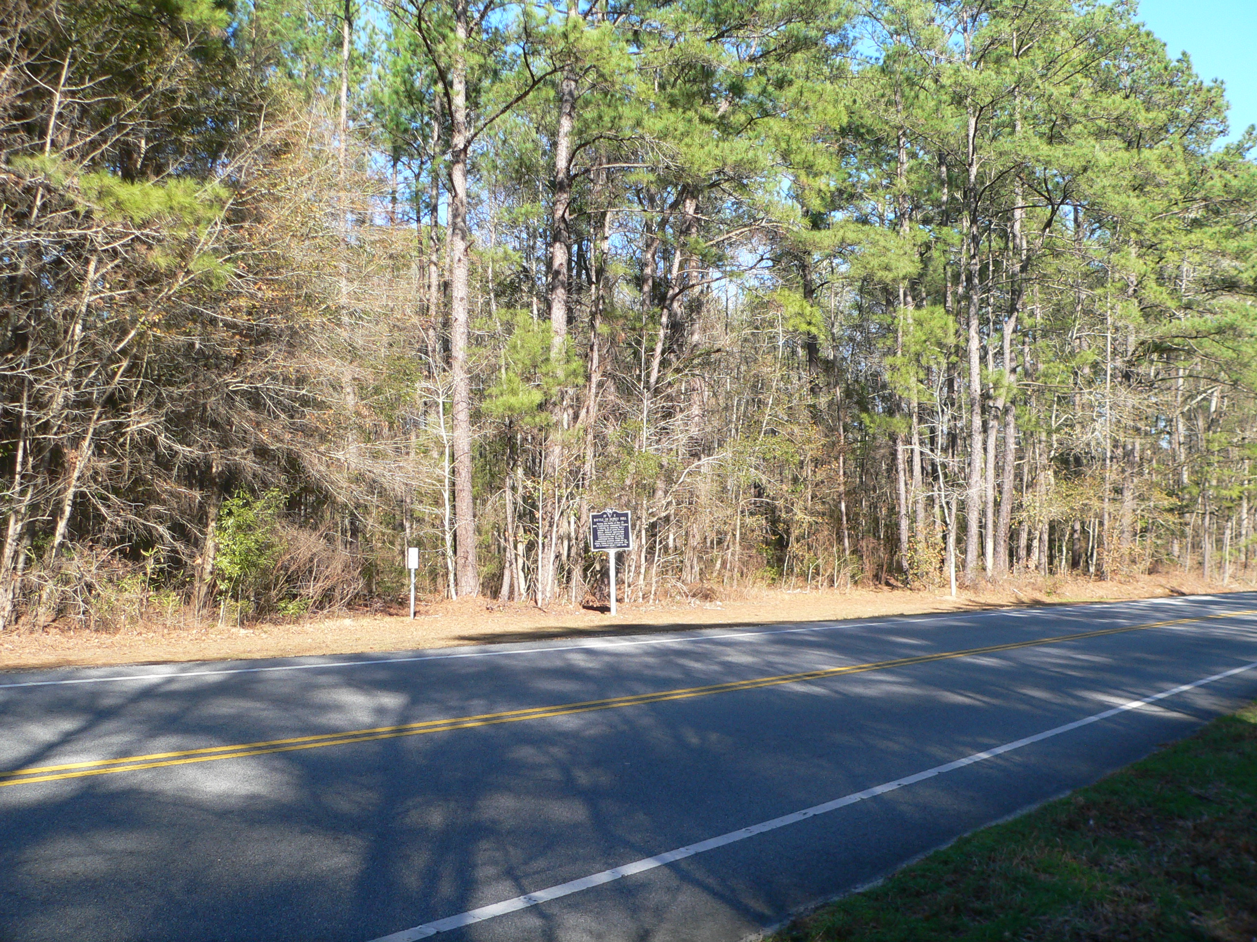 Historical marker beside South Carolina Highway 336 east of Ridgeland, commemorating Battle of Honey Hill during U.S. Civil War.